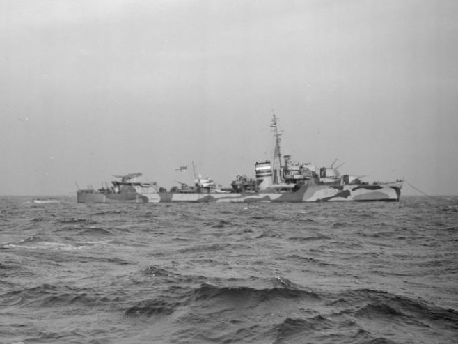 IWM caption : HMS LOOKOUT, an L class destroyer armed with six 4.7 inch guns in twin Mk XX mounting, moored at Greenock.